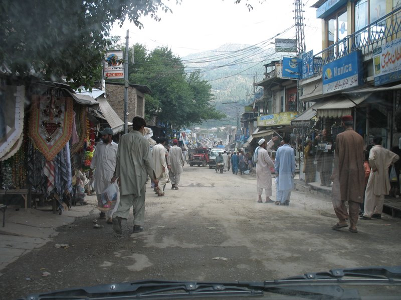 A view of Oghi market. Oghi is a town in Mansehra district of KPK, Pakistan.